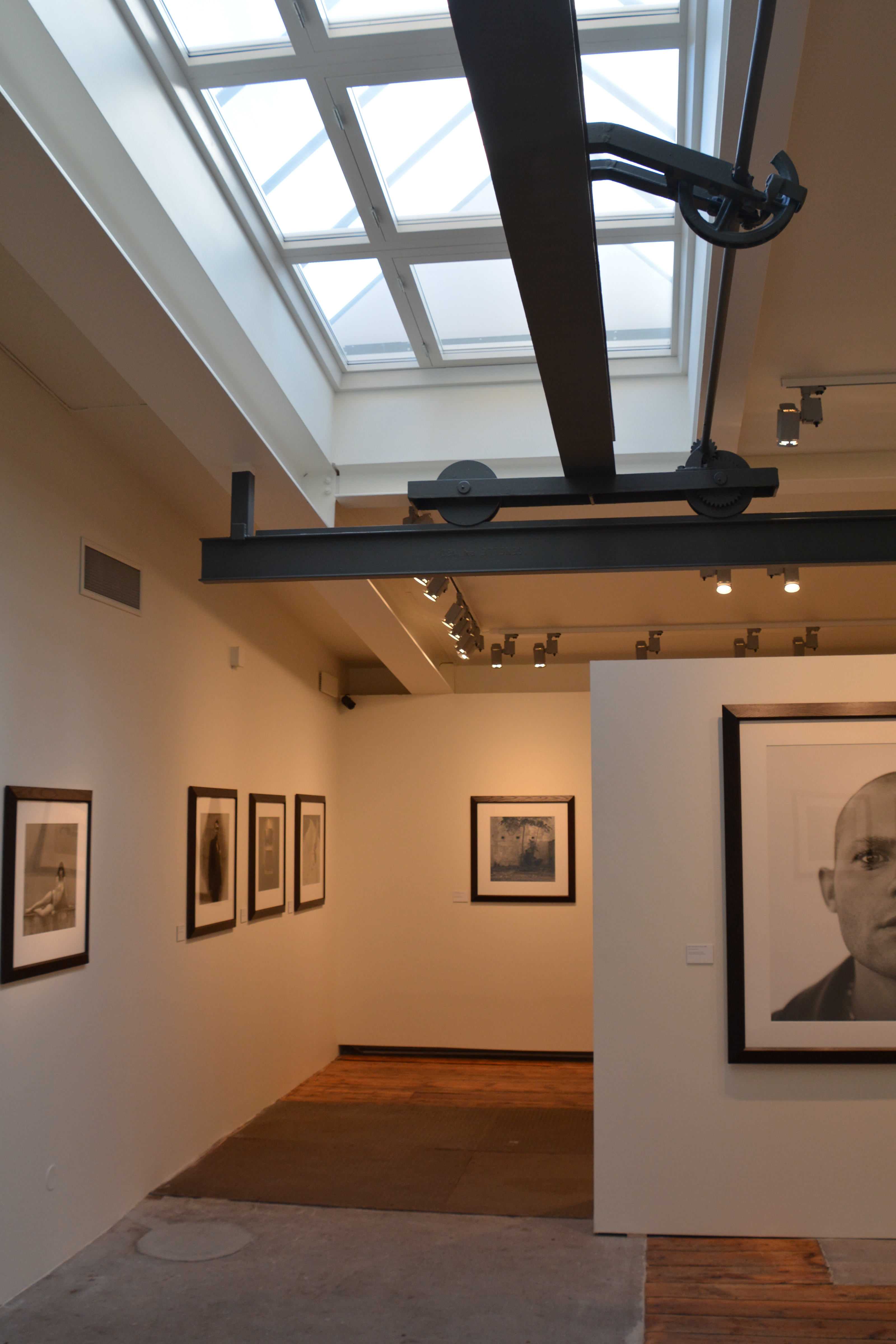 Mindepartementet Art and Photography, Stockholm